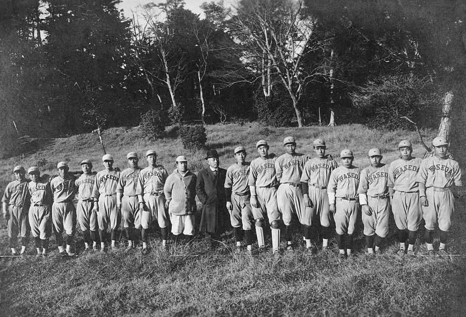 Waseda University baseball team to visit U.S., now in Honolulu. (original text)